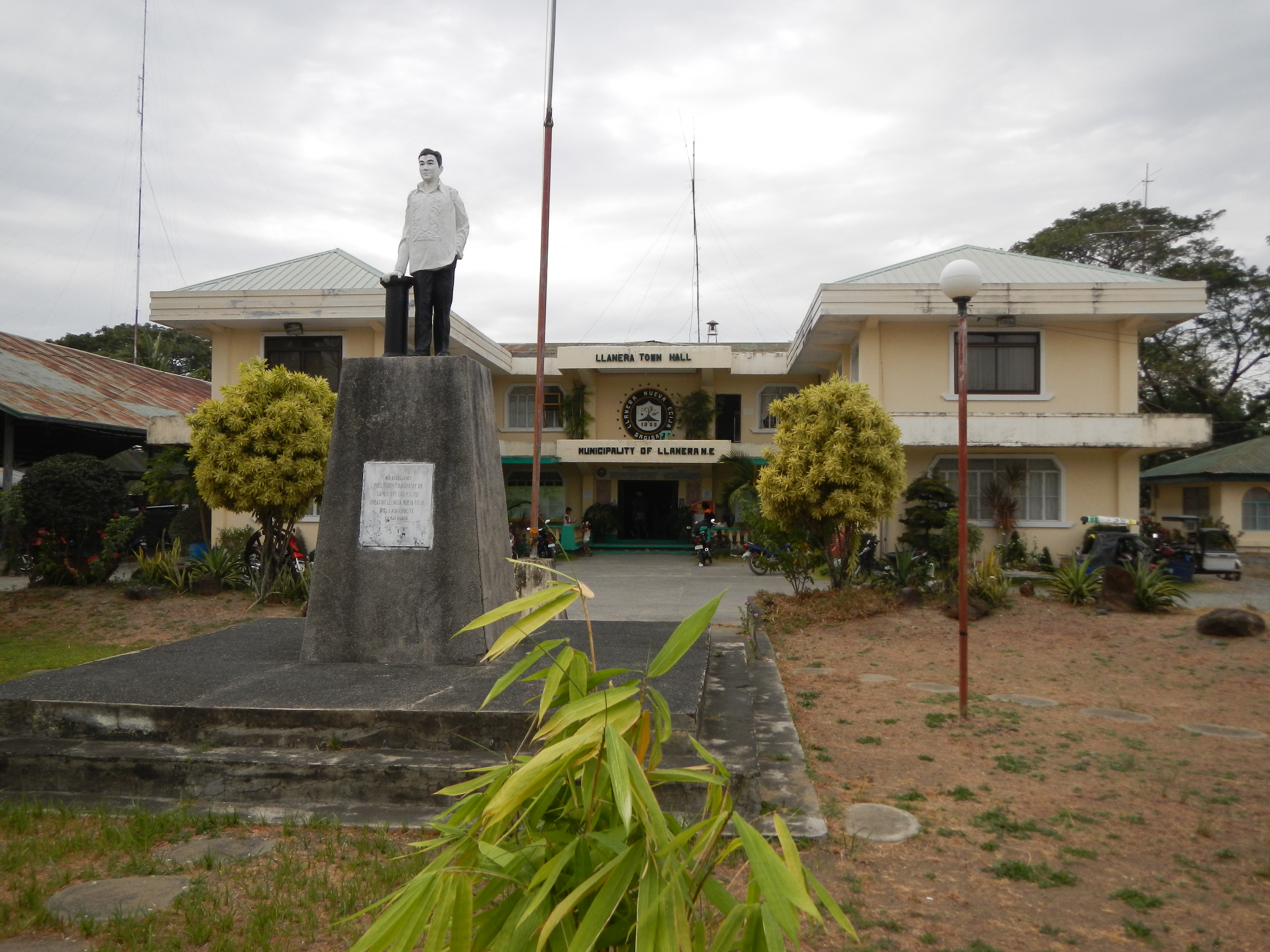 Llanera, Nueva Ecija[1] is a fourth class municipality in the province of Nueva Ecija, Philippines. According to the 2010 census, it has a population of 36,200 people.[2][3] Land Area: 114.44 km² ZIP Code: 3126 Coordinates: 15°39'44"N 120°59'30"E[4] [5]Mariano Llanera (1855-1942) of Gapan, Nueva Ecija. He was a Filipino General who fought in the provinces of Bulacan, Tarlac, Pampanga, and Nueva Ecija.